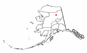 Adapted from Wikipedia's AK borough maps by Seth Ilys.